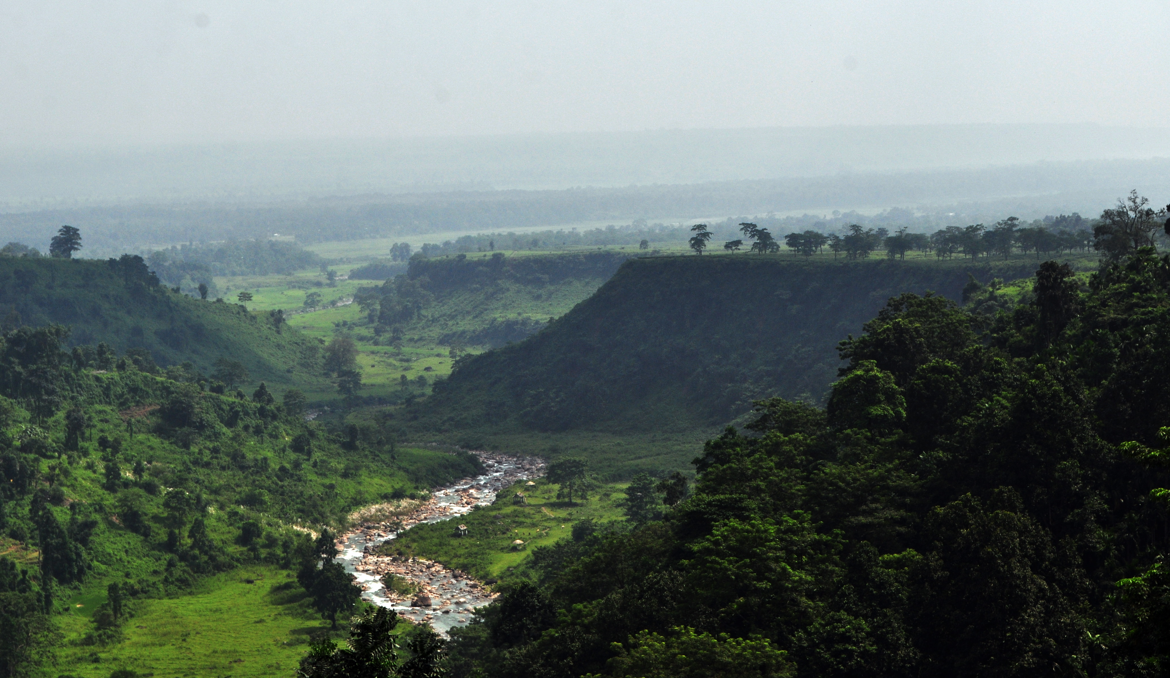 The river Murti at Samsing, north of West Bengal, India. Sikkim India 2012